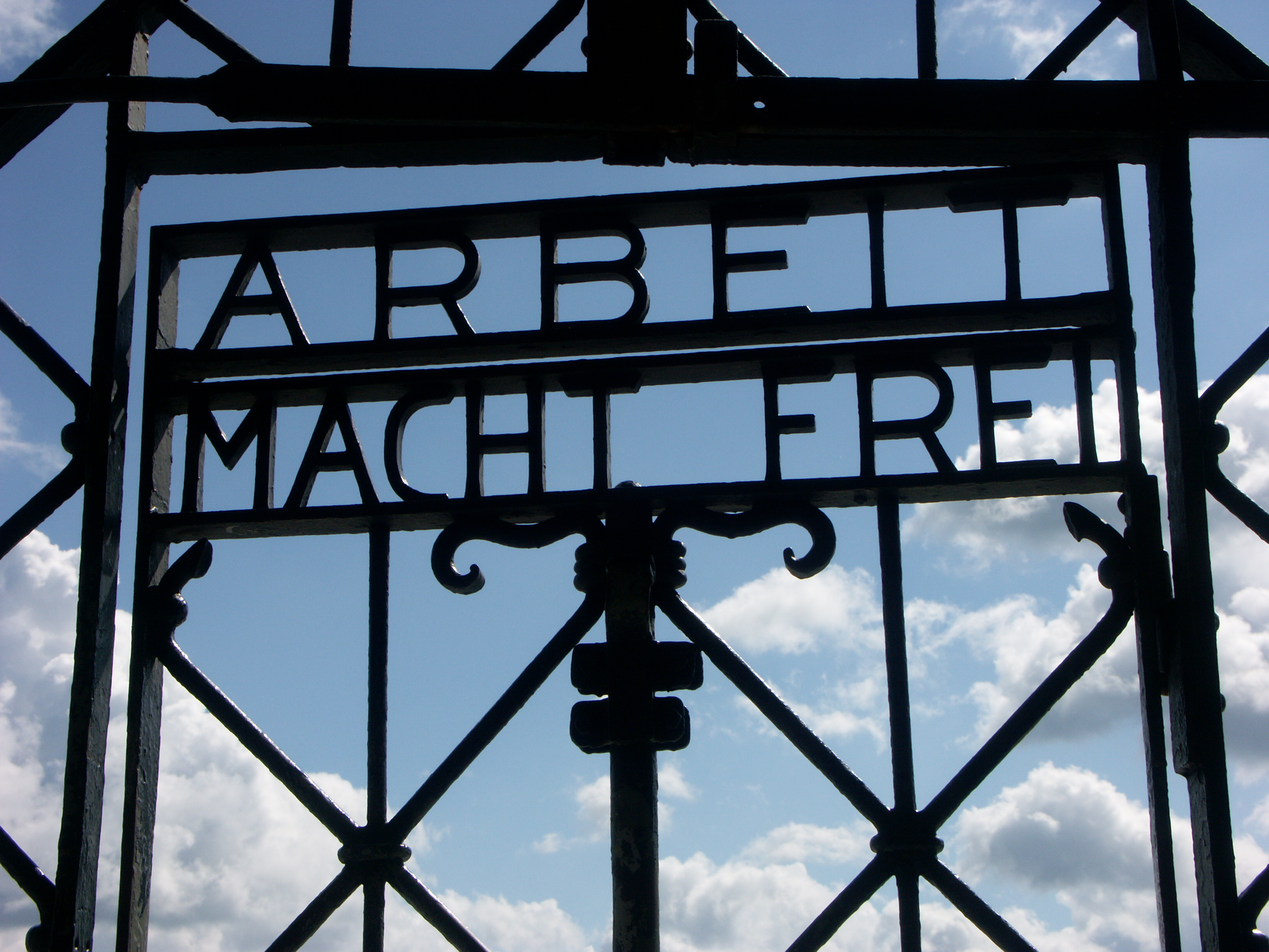 Detail of the main gate at Dachau concentration camp in Germany, displaying the famous "Arbeit Macht Frei" slogan.